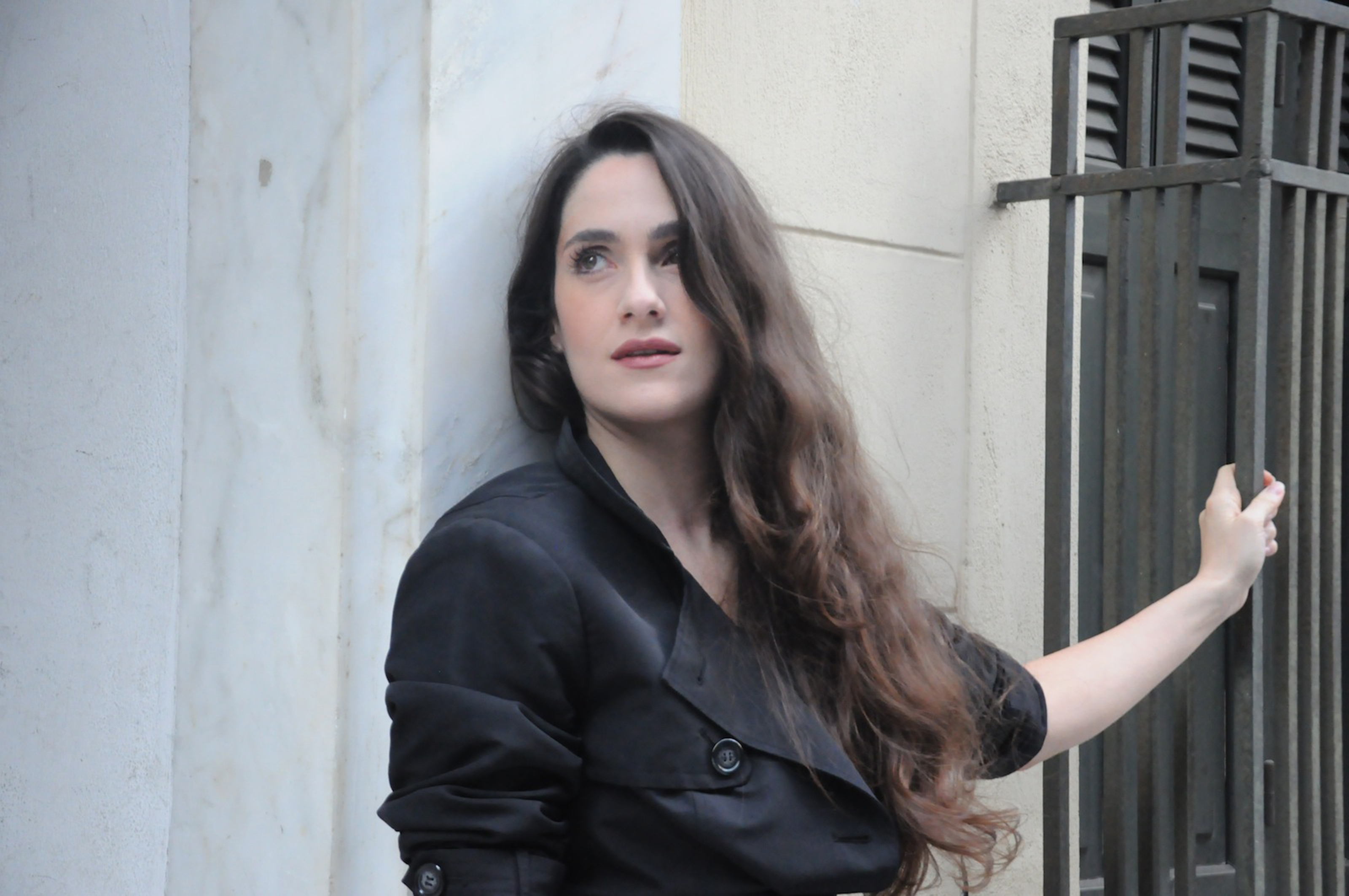 Eva Simatou